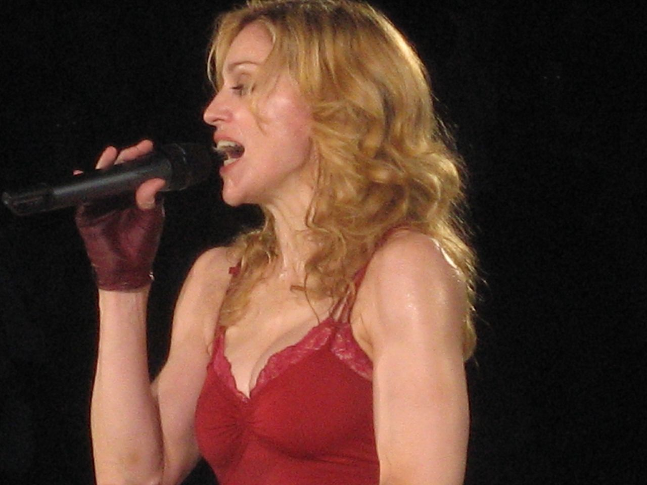 Madonna at her 'Confessions' Tour at Wembley Arena.